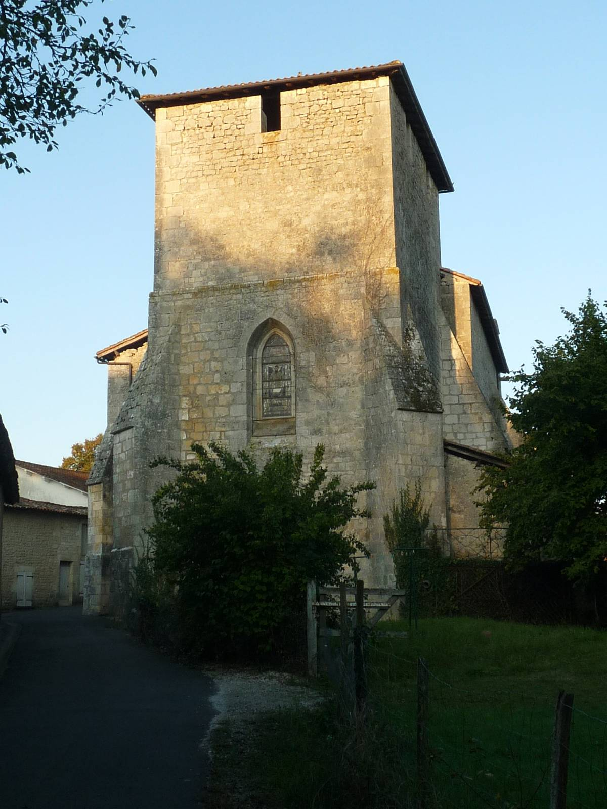 church of Agris, Charente, SW France